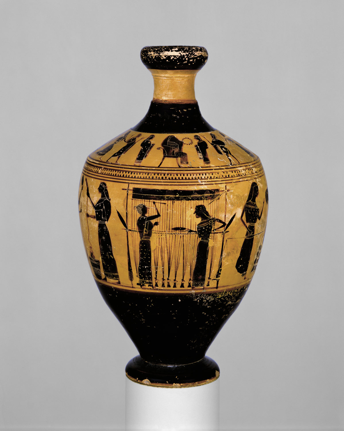 Black-figure terracotta vase from The Met collection. URL: Description from The Met page: "On the shoulder, a seated woman, perhaps a goddess, is approached by four youths and eight dancing maidens. On the body, women are making woolen cloth."